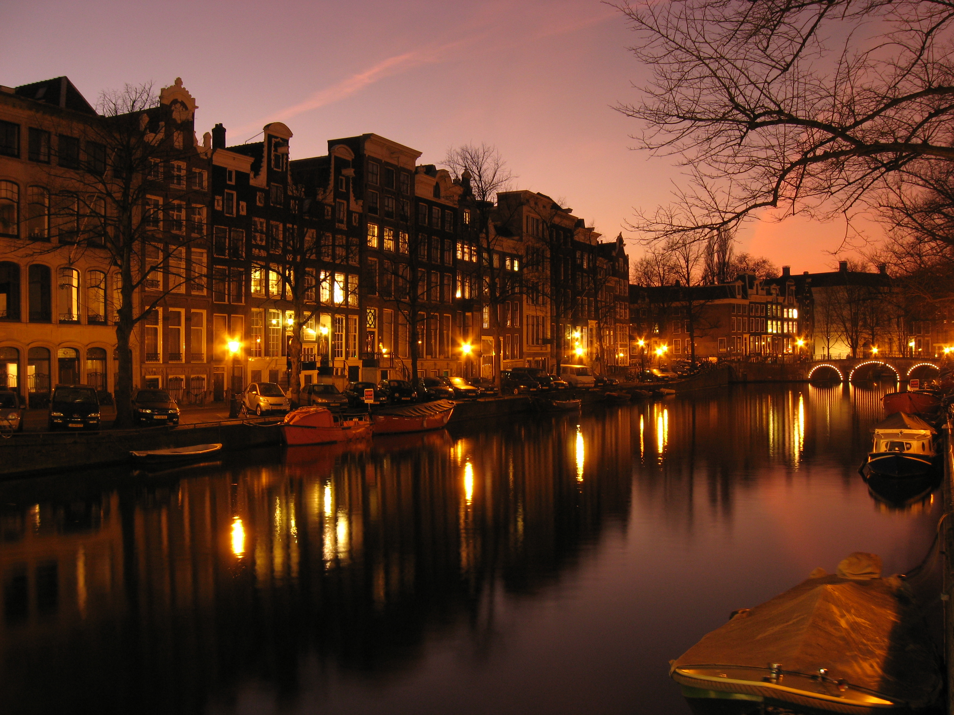 Canal at Prinsengracht street, Amsterdam